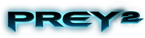 Logo for Prey 2